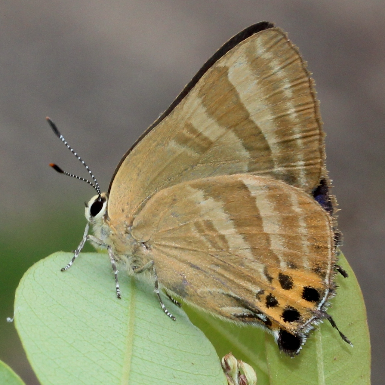 Rapala arata, in Japan.